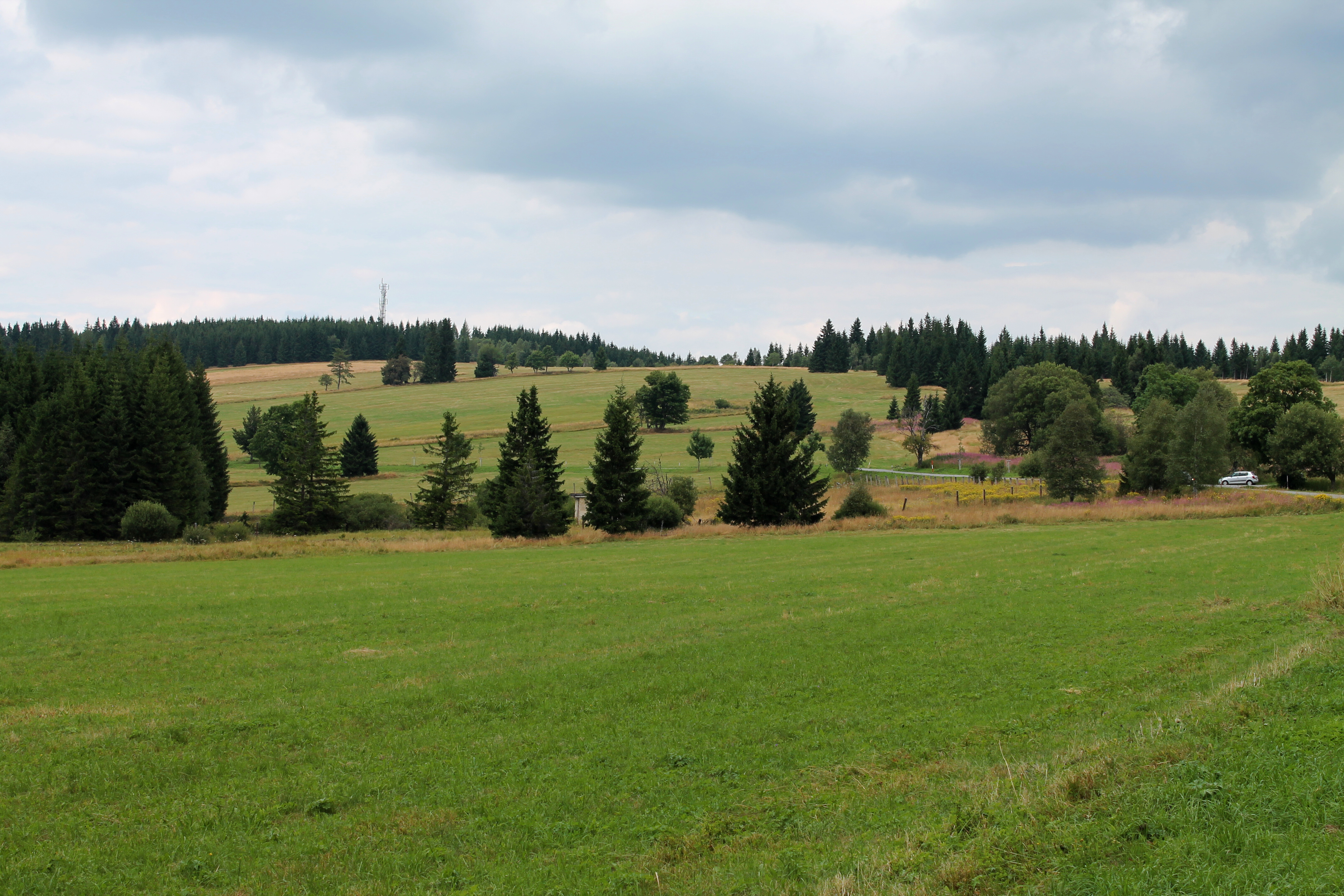 Zhůří, Rejštejn, Klatovy District, Czech Republic